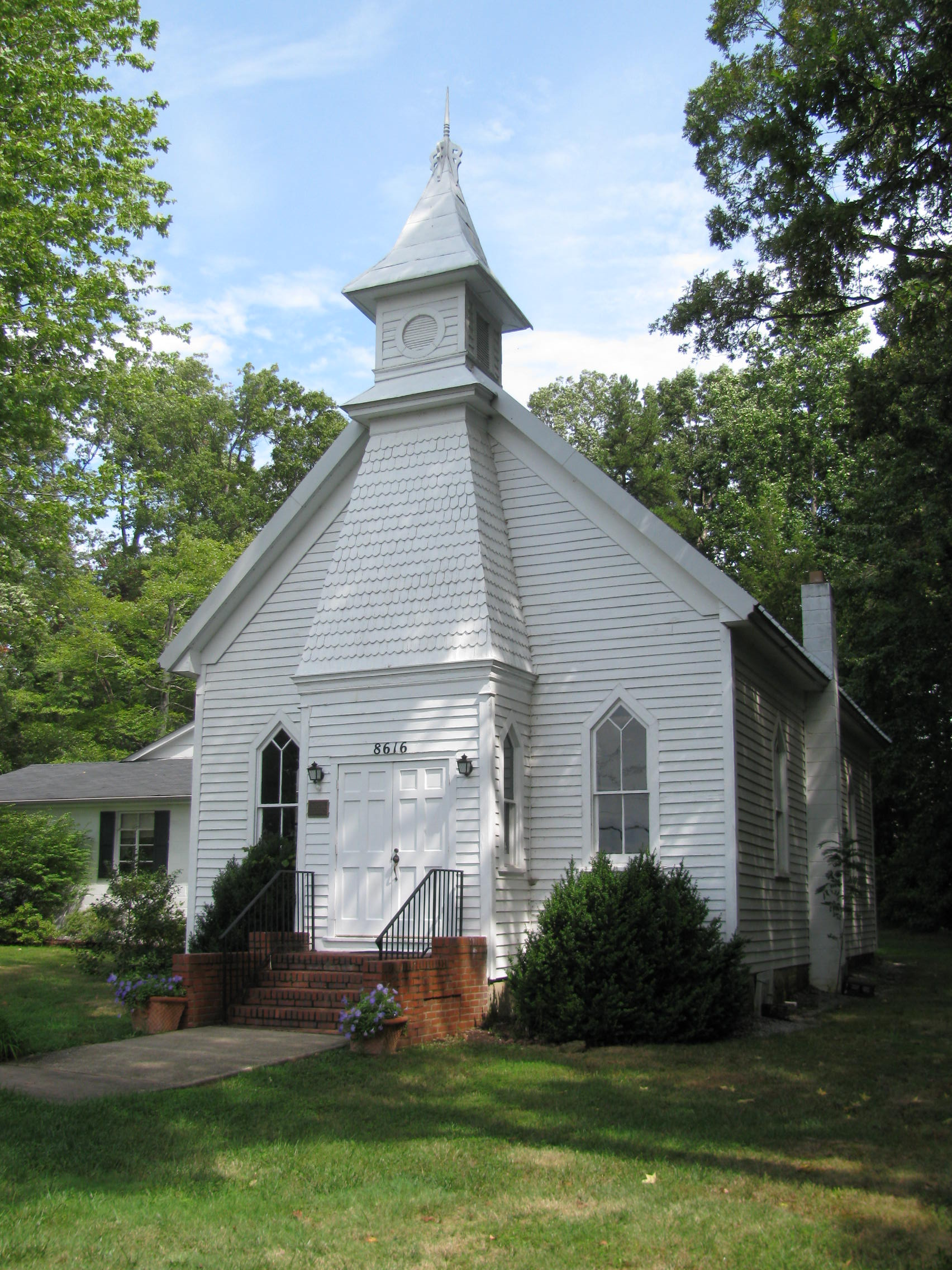 Silverbook Methodist Church